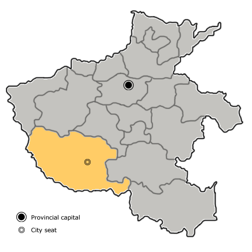 The prefecture-level city of Nanyang is highlighted on this map of Henan province, People's Republic of China.